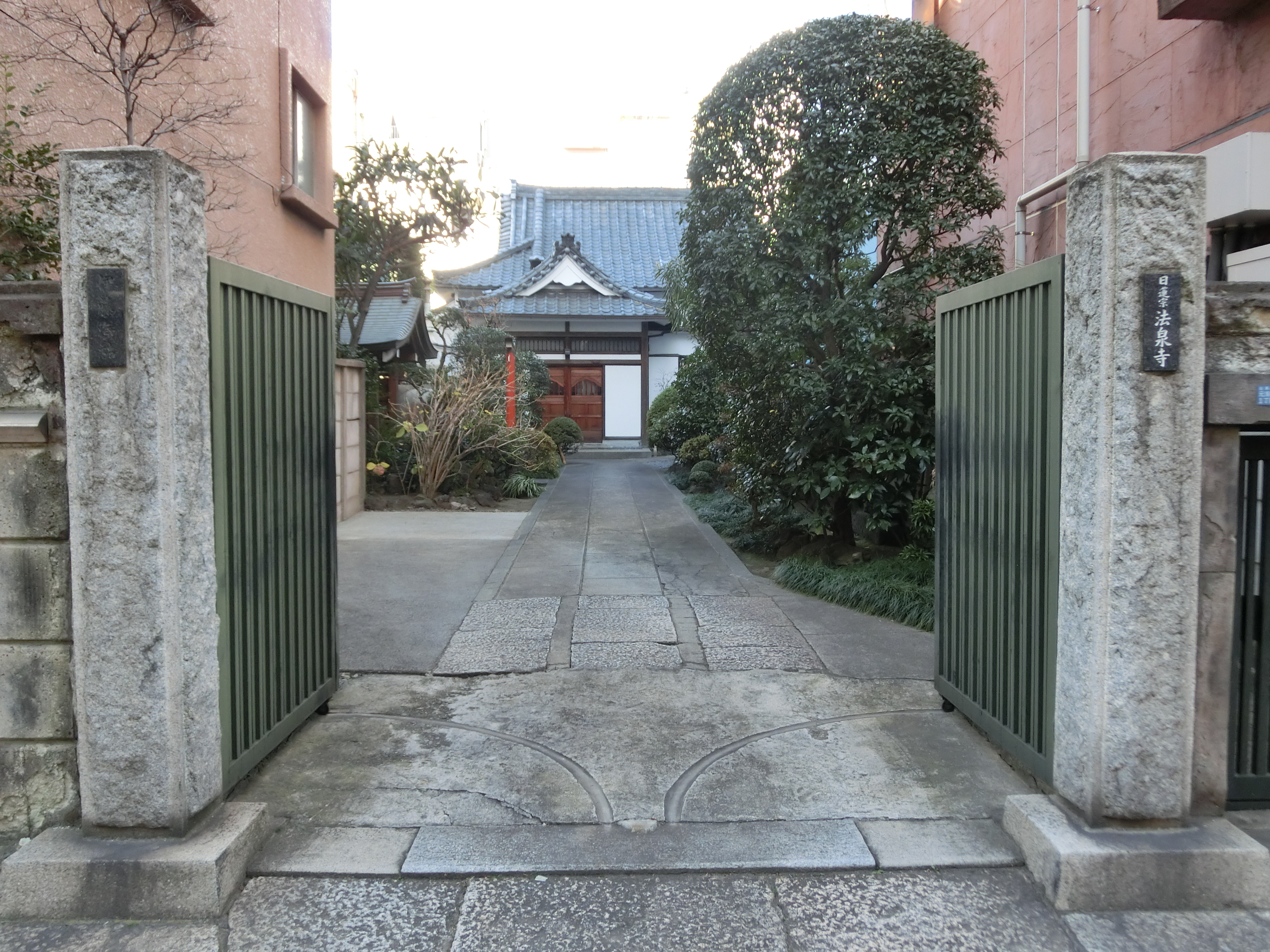 Hosen-ji (Taito)